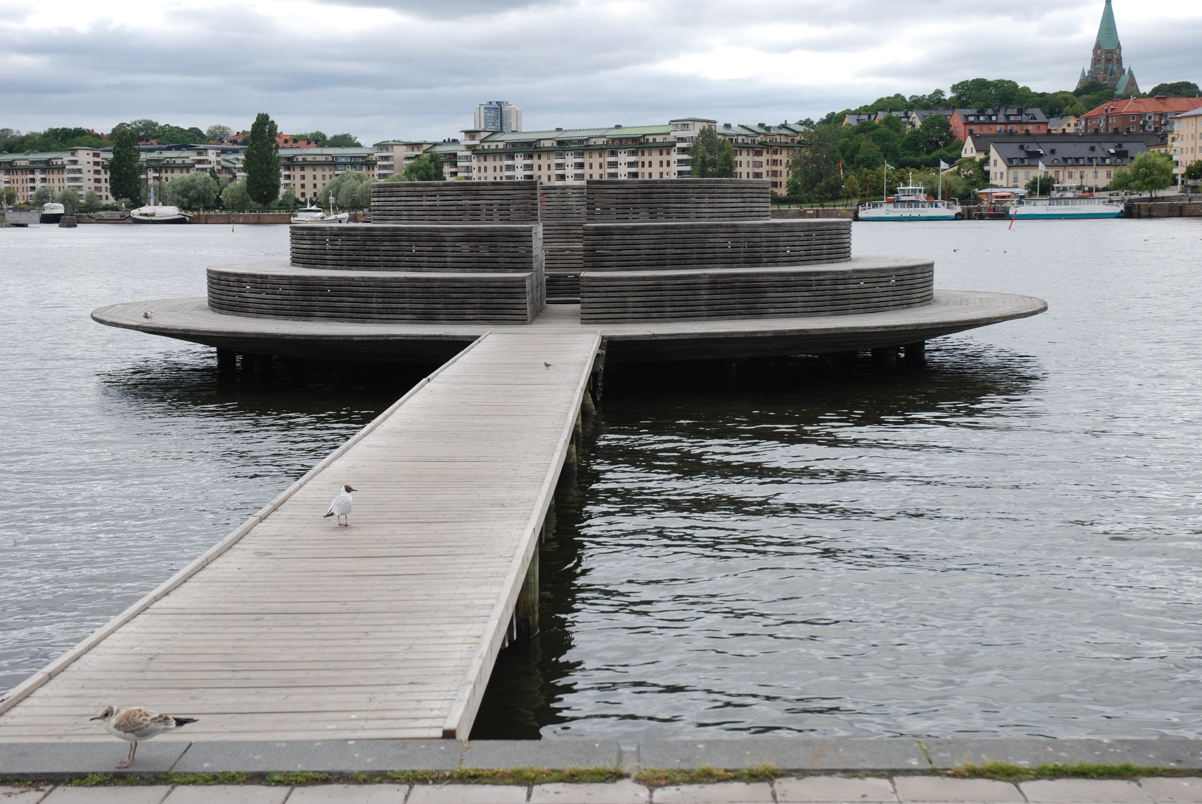 Gunilla Bandolin´s Observatorium, Hammarby sjöstad, Stockholm, 2001